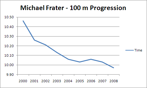 I wanted to make a chart of the progress of Michael Frater in the 100 m on a yearly basis. I used information available from the IAAF and other sources for the time data. I generated a chart in line graph format using Excel 2007, then converted it into a .gif file using Adobe Photoshop CS2